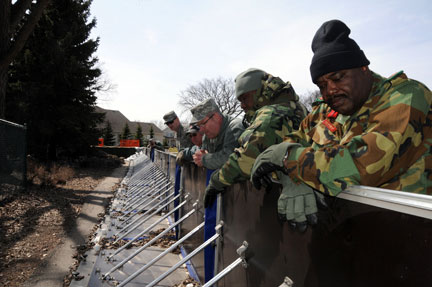 North Dakota National Guard Joint Task Force-East leaders and visiting Ghanaian dignitaries tour flood protection measure April 14, 2011, including this AquaFence in Fargo, N.D. The Ghanaian dignitaries are visiting the North Dakota National Guard as part of a State Partnership Program between the African country of Ghana and the North Dakota National Guard. Since 2003, the North Dakota National Guard has developed a professional relationship with Ghana as part of the National Guard State Partnership Program. This program aligns states with partner countries to encourage the development of economic, political and military ties.